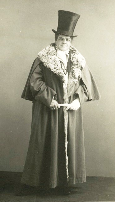 Vasily Luzhsky as Repetilov(?) in «Sorrows of the Spirit» by Alexander Sergeyevich Griboyedov.